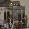 Phoenix Spacecraft Met